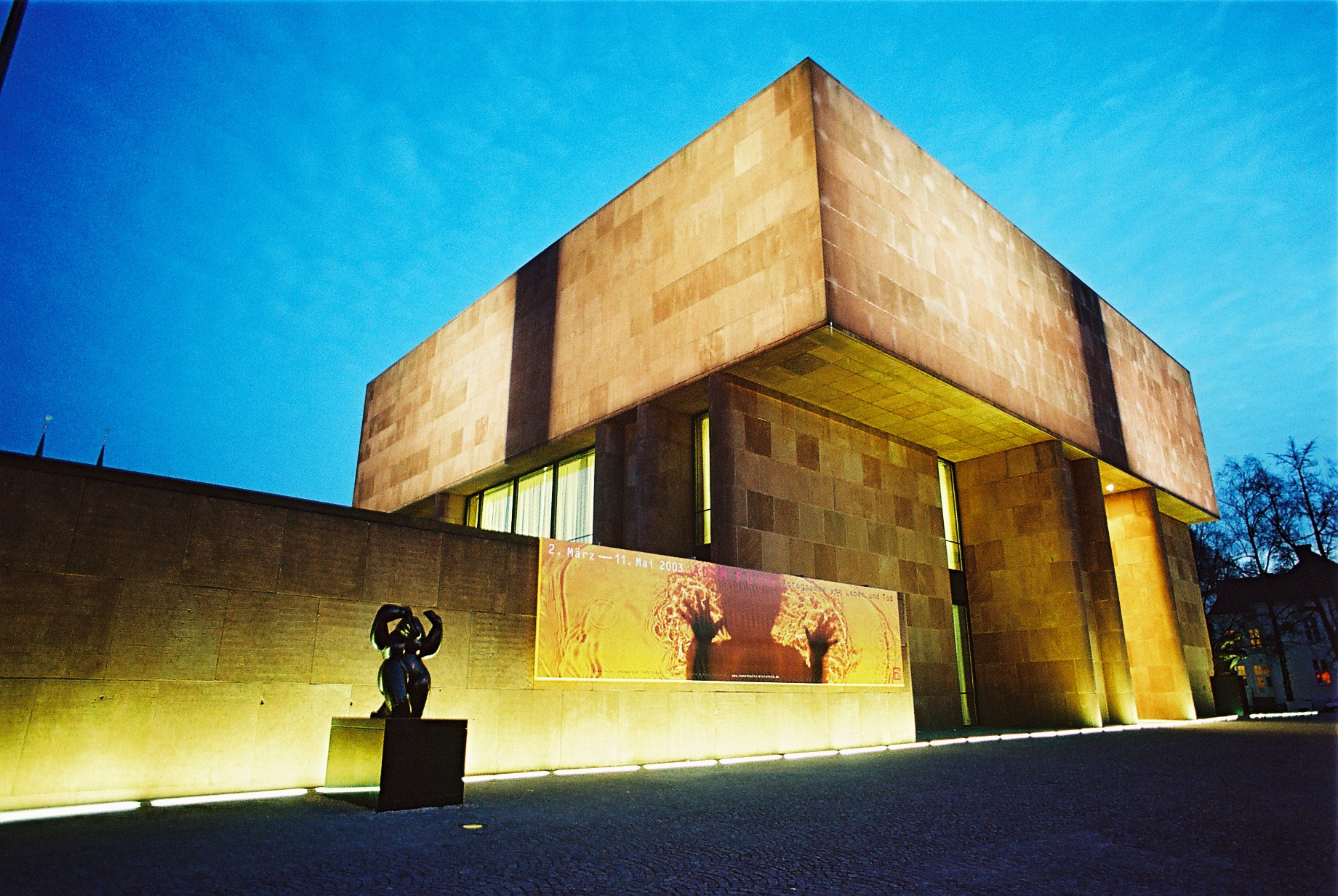 Philip Johnson, Kunsthalle in Bielefeld/Germany with sculpture: Le Matin by Henri Laurens